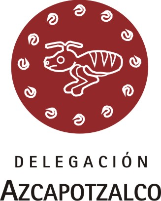 Image based on the official logo of Azcapotzalco, Mexico, D. F.